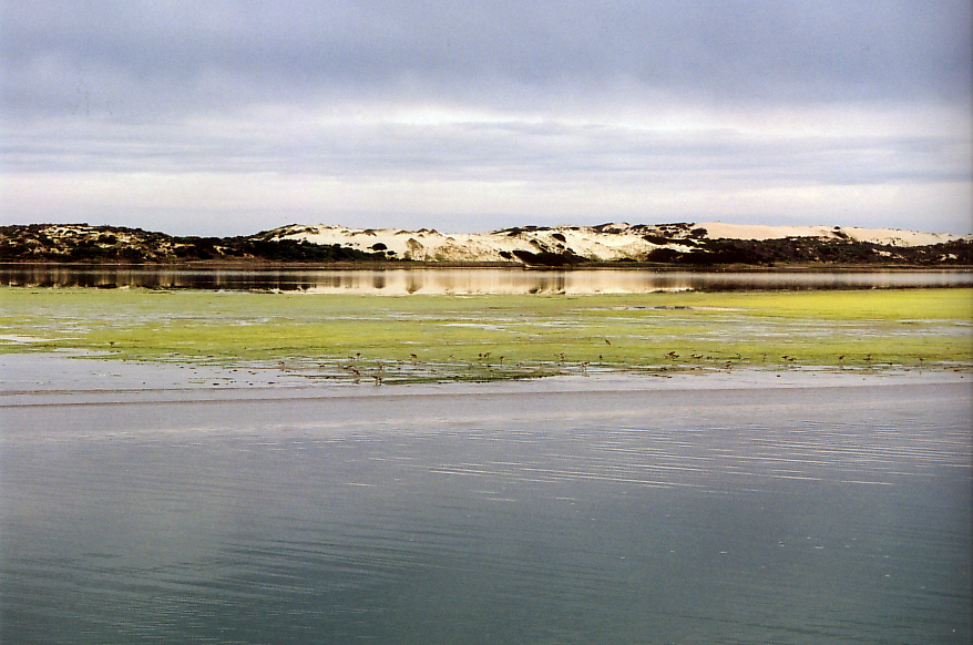 One of Australia's most significant wetlands, the Coorong, at the mouth of the River Murray, is the focus of a multi–million dollar research partnership that aims to improve the ecological health of the region and protect threatened birds and fish. CSIRO, through the Water for a Healthy Country Flagship, is partnering with the University of Adelaide, Flinders University and the South Australian Research and Development Institute (SARDI) Aquatic Sciences, to study the ecology of the Coorong, Lower Lakes and Murray Mouth region in a collaborative research program known as CLLAMMecology. The field component of the research program will study in detail the ecological responses observed during planned water regime manipulations, in particular, the release of water from the Lower Lakes barrages to the Murray estuary. The information gathered will be used to develop improved models to predict ecological responses to future climate and water management scenarios.